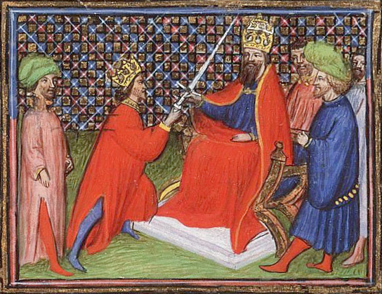 Jean Froissart, Chroniques (Vol. I): Edward III becomes Vicar to the Emperor Ludwig V Place of origin, date: Paris, Virgil Master (illuminator); c. 1410 Material: Vellum, ff. 382, 385x288 (243x187) mm, 42 lines, littera cursiva, Binding: 18th-century brown leather; gilt; with coat of arms of Stadholder William V Decoration: 1 two-column miniature (170x180 mm); 29 column miniatures (115/65x95/80 mm); 1 historiated initial (45x50 mm); decorated initials with border decoration (ff. 1r, 24r, 36r, 62r, 74v, etc.) Provenance: Louis de Luxemburg, conn‚table de France (d. 1475; signature, erased); by descent to his granddaughter Françoise de Luxembourg and her husband Philip of Cleves (d. 1528; coat of arms with label, over erasure; signature); purchased in 1531 from Philip's estate by HenriIII, Count of Nassau (d. 1538); by descent to the Princes of Orange-Nassau, the later Stadholders, at The Hague; carried off in 1795 to Paris by the French and restituted to the Koninklijke Bibliotheek in 1816